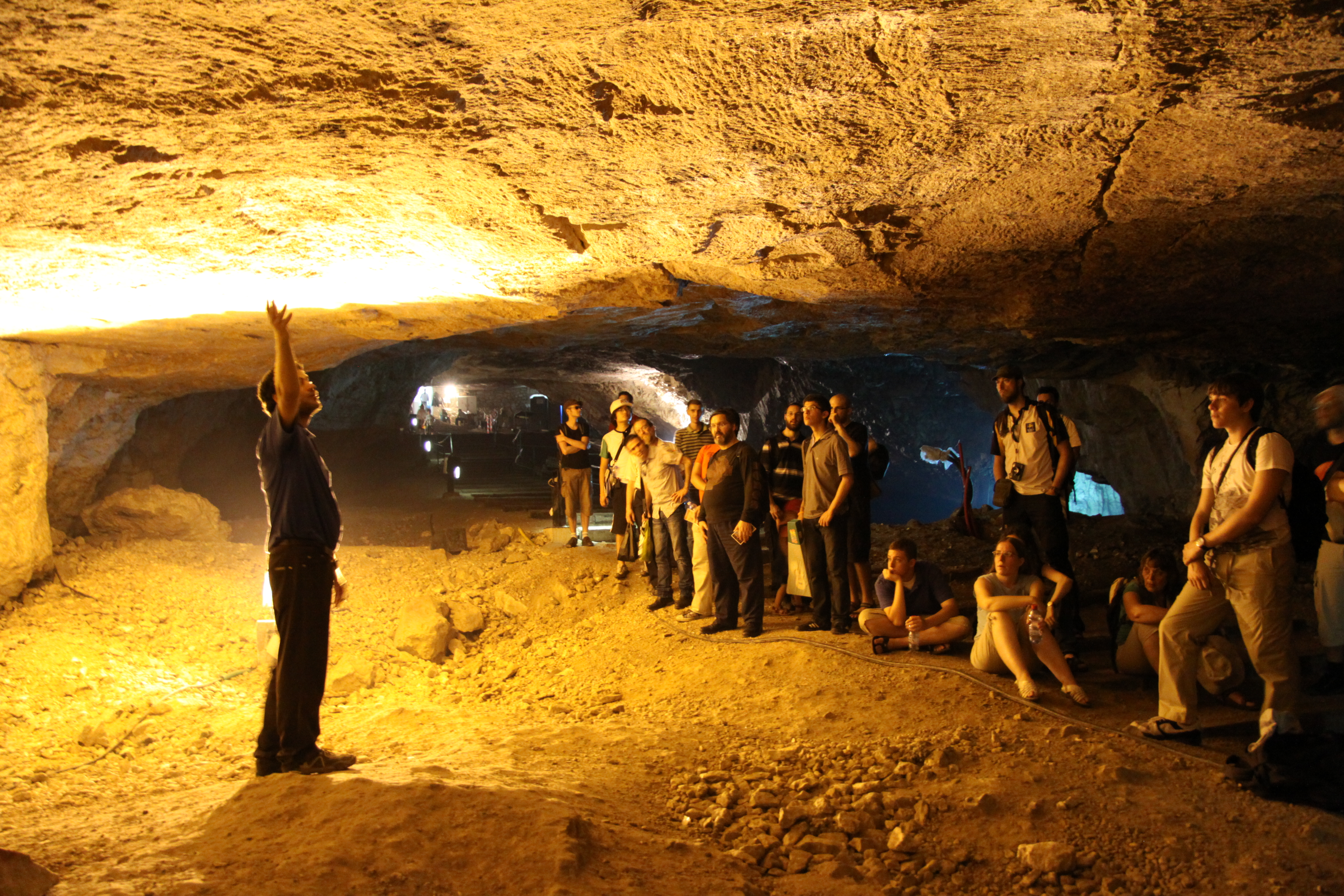 Wikimania 2011 Jerusalem Tour by Chmee2, Israel